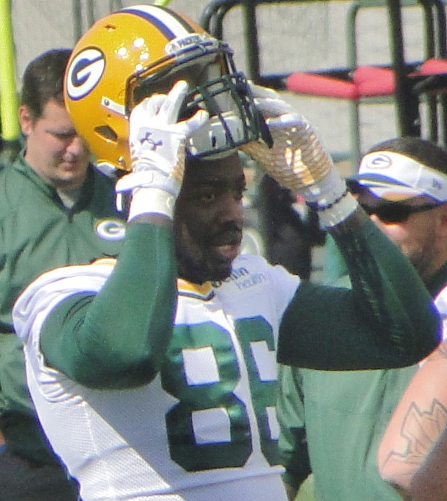 Green Bay Packers tight end Brandon Bostick at 2014 training camp.